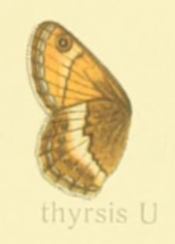 Coenonympha thyrsis